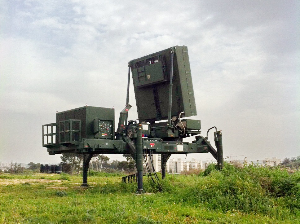 Elta EL/M-2084 radar used by the Iron Dome surface-to-air missile system.